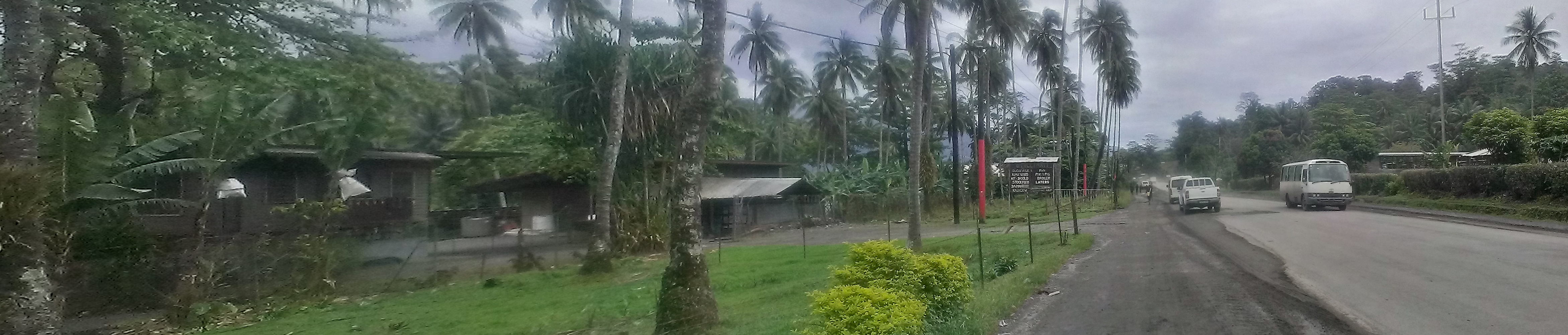 Panoramic photo of 6 Mile farm and dairy at 6 Mile, on Nadzab Road, Lae Papua New Guinea